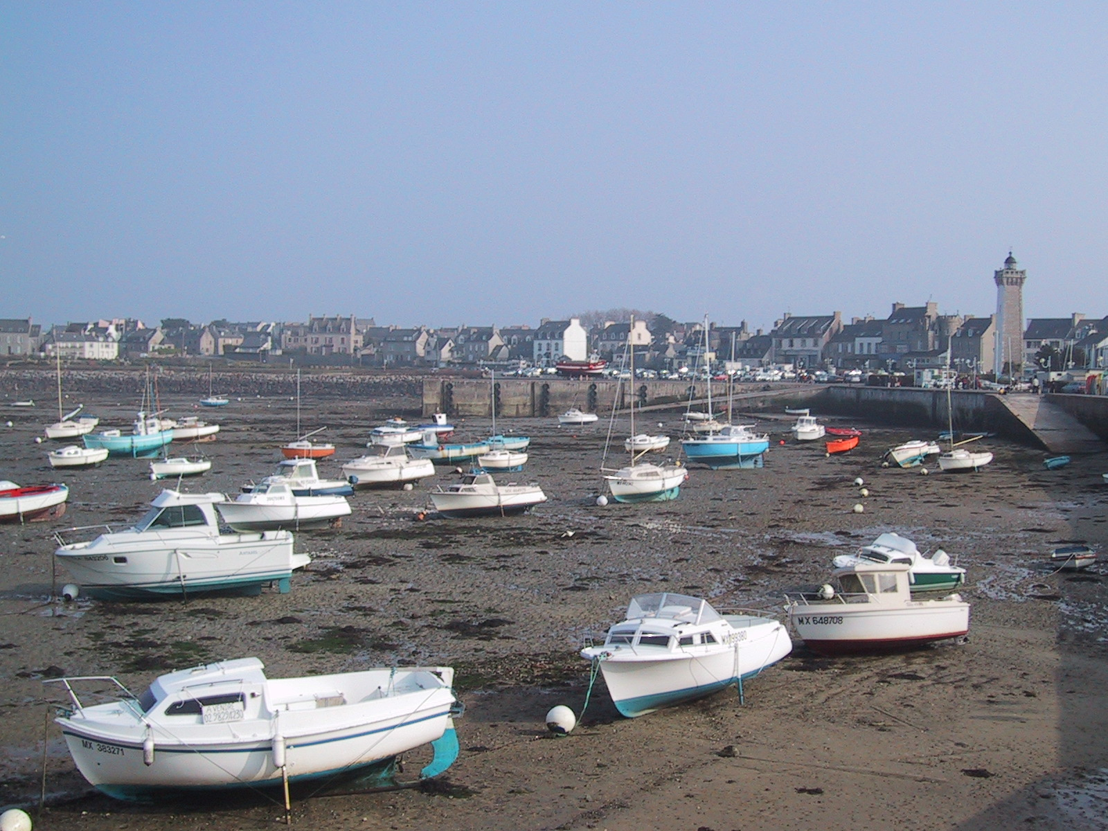 Low tide in Roscoff, Brittany, France (in the Morlaix area).